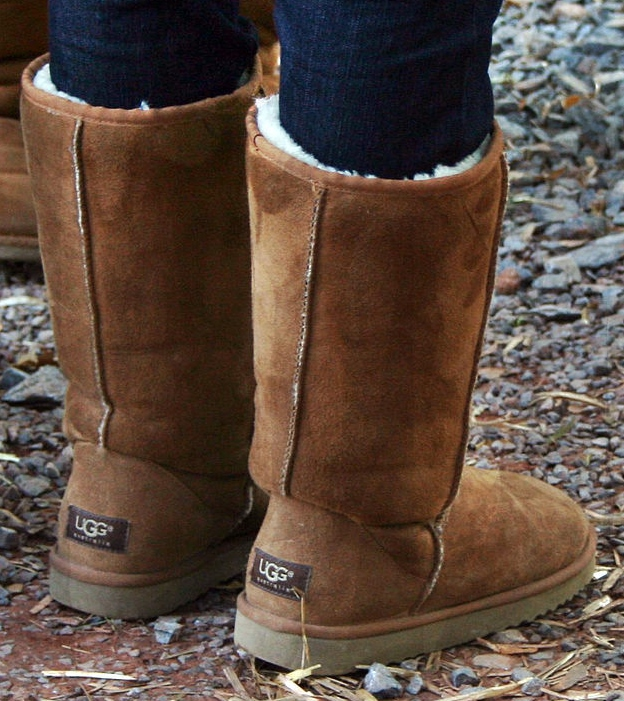 Cropped version of original photo by User:TexasDex Ugg brand boots.